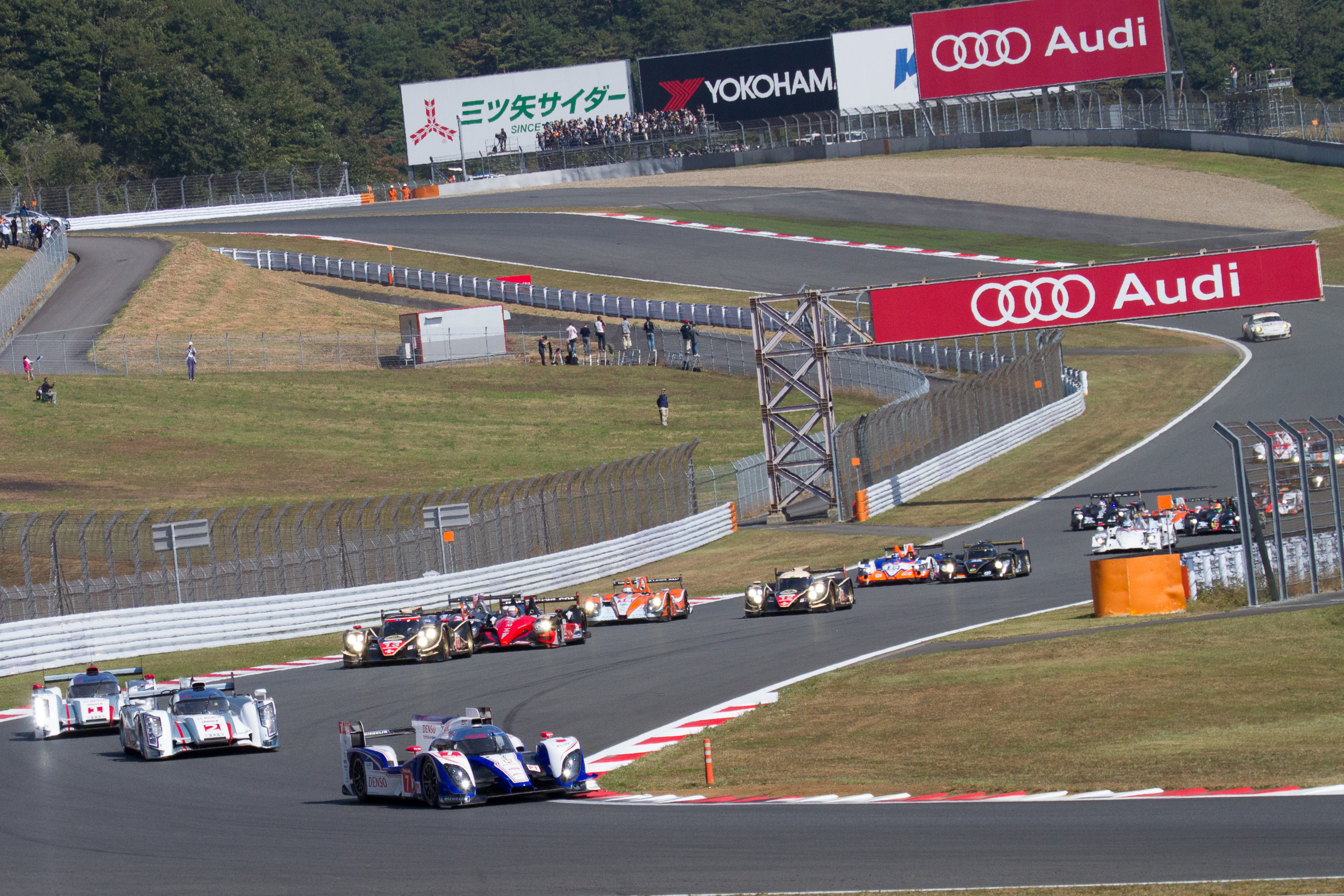 FIA World Endurance Championship 2012 Rd.7 6 Hours of Fuji: opening lap